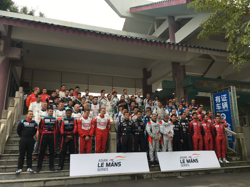 2016 Asian Le Mans Series Zhuhai Round Drivers group photo 粵語: 2016 亞洲勒芒系列賽 珠海站 車手合照